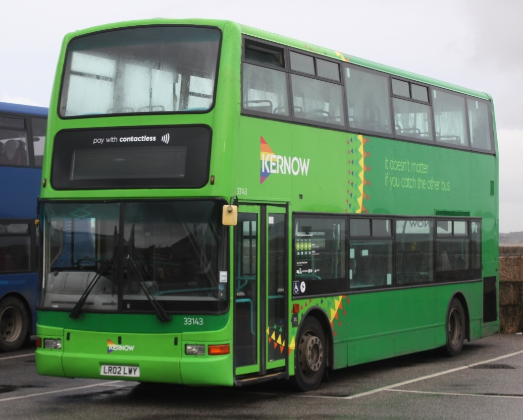 First Kernow received this 16 year old Plaxton President in 2018 (fleet number 33143; registration LR02LWY) and gave it LGBT 'rainbow' branding when it was painted into their fleet livery. It is seen at Penzance bus station.